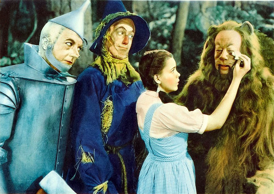 Lobby card from the original 1939 release of The Wizard of Oz featuring Judy Garland, Ray Bolger, Jack Haley and Bert Lahr.